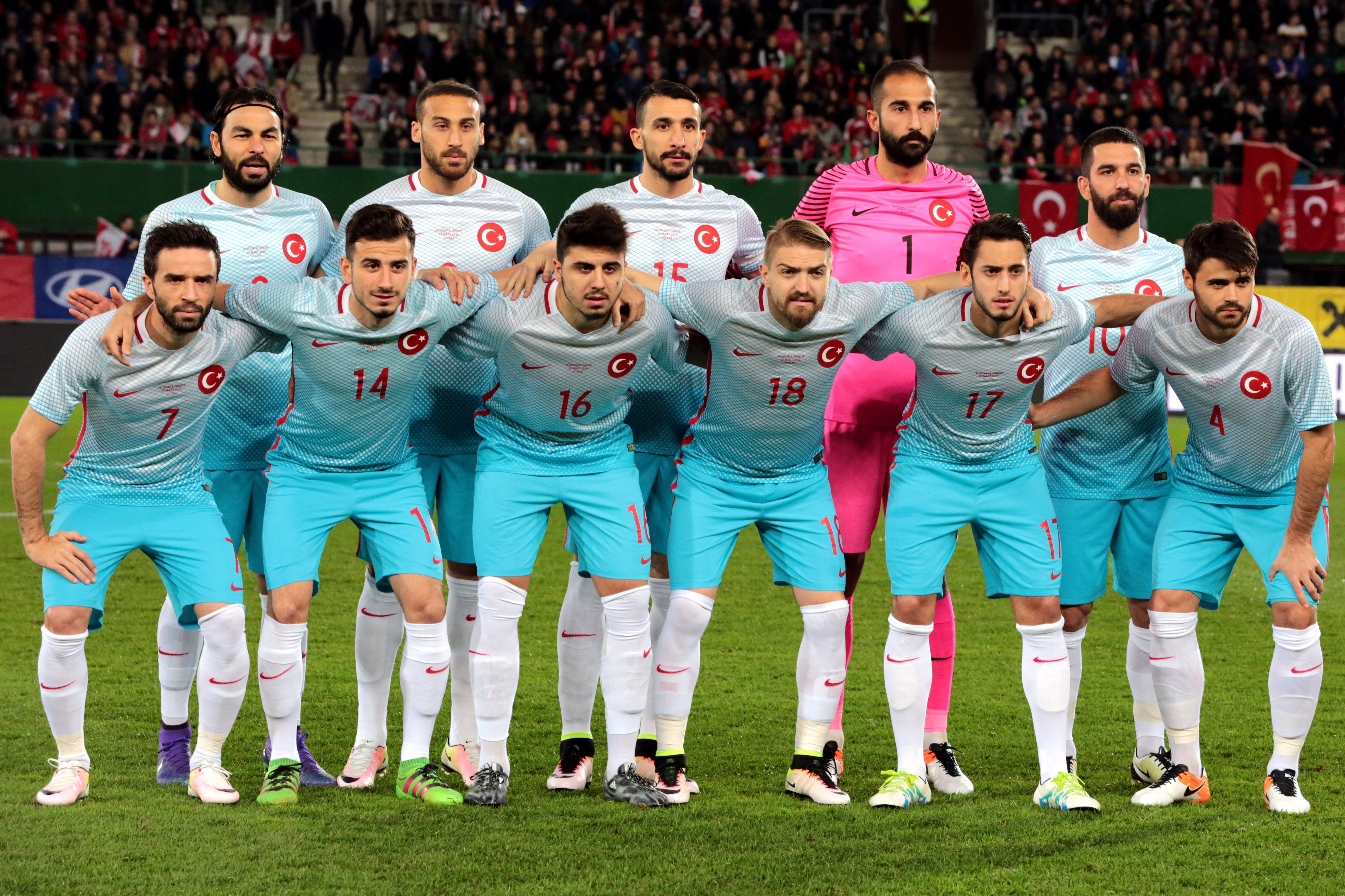 Friendly match – Austria (red shirts) vs. Turkey (blue shirts) 1–2 (1–1) on 2016-03-29 in Ernst-Happel-Stadion, Vienna – The photo shows the Turkey national football team (from left to right): 1st row: Gökhan Gönül (Fenerbahçe, Oğuzhan Özyakup (Beşiktaş, Ozan Tufan (Fenerbahçe, Caner Erkin (Fenerbahçe, Hakan Çalhanoğlu (Bayer Leverkusen and Ahmet Yılmaz Çalık (Gençlerbirliği; 2nd row: Selçuk İnan (Galatasaray, Cenk Tosun (Beşiktaş, Mehmet Topal (Fenerbahçe, Volkan Babacan (GK, İstanbul Başakşehir and Arda Turan © (FC Barcelona.)